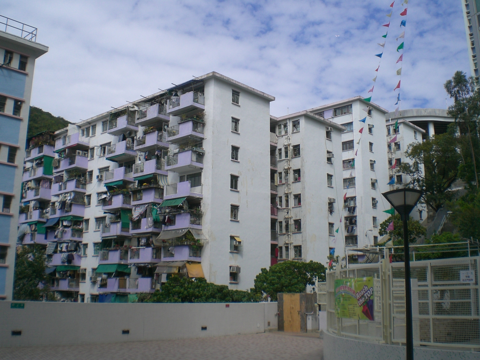 香港仔 漁光村